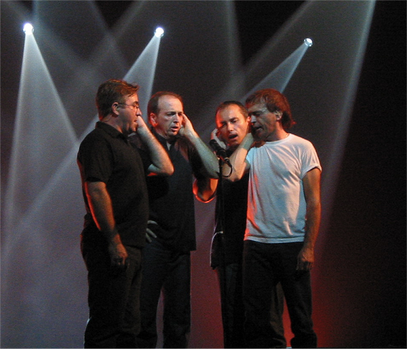 I Muvrini; An original photograph taken by me at the Festival Interceltique in Lorient, Brittany in August 2003